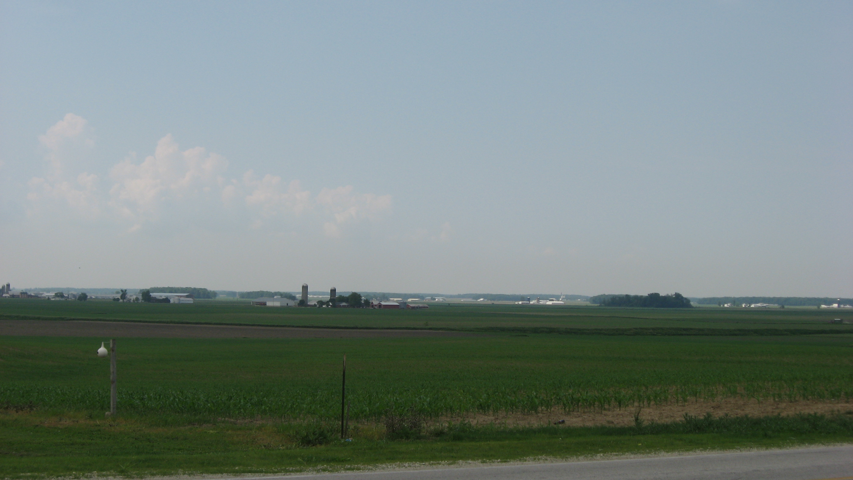 Looking southward across the Cranberry Prairie, a former cranberry bog on the southern side of Fort Recovery-Minster Road and west of Cranberry Road in Granville Township, Mercer County, Ohio, United States.